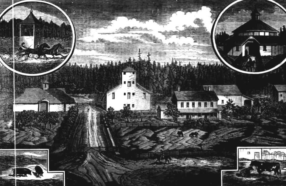 The farm of Simeon Gannett Reed in Washington County, Oregon from The West Shore in 1880. The area later became known as Reedville, Oregon